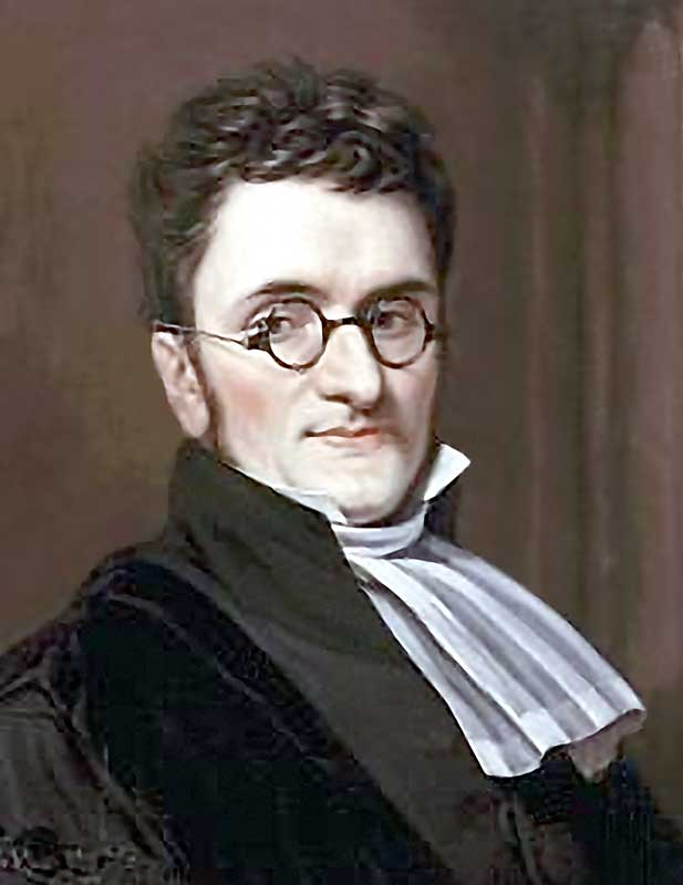 Philipp Wilhelm van Heusde (1778-1839) Dutch philosopher, historian, linguist and rhetorician